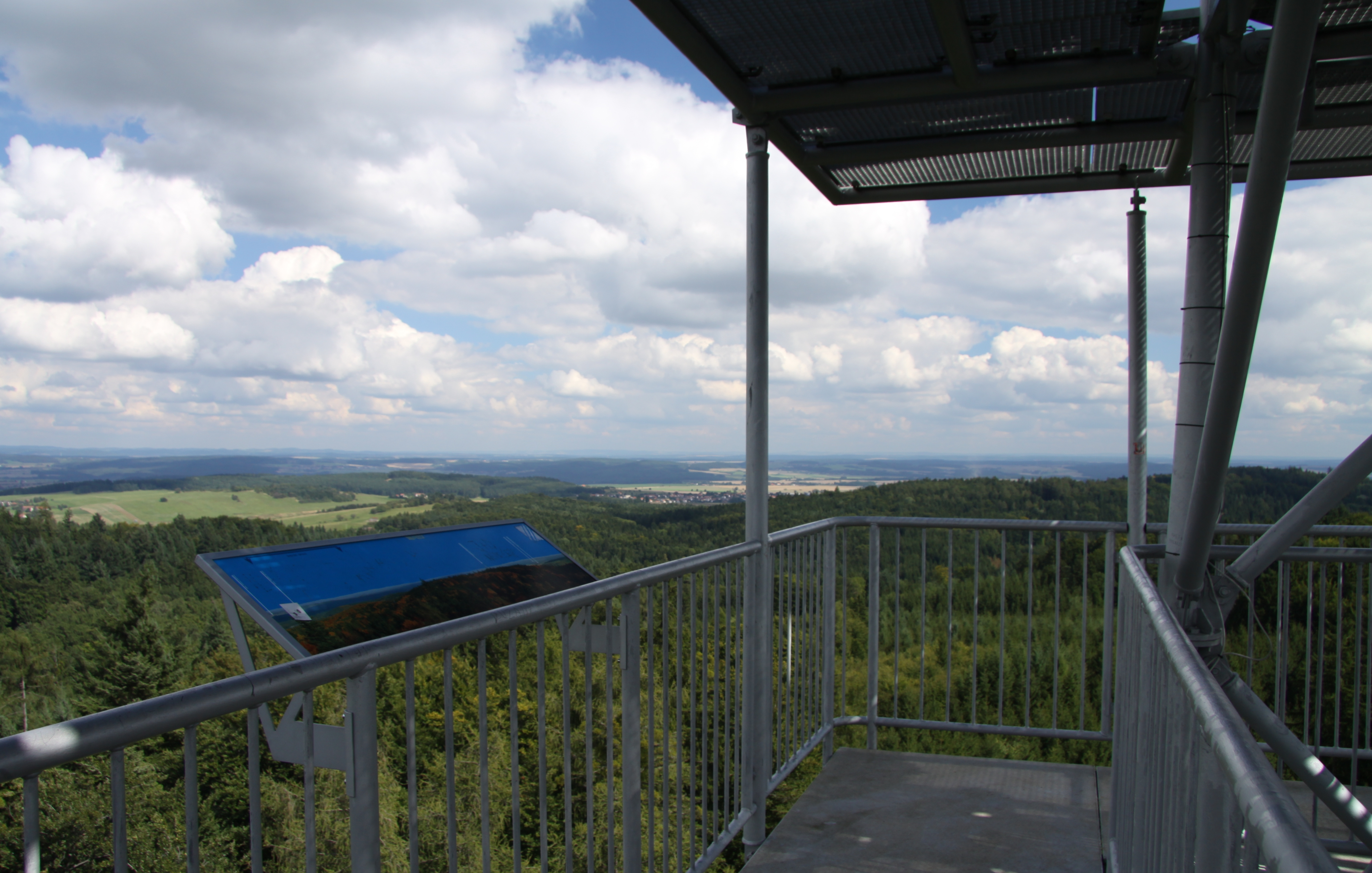 Javorník tower near Písek town, South Bohemia, Czech Republic